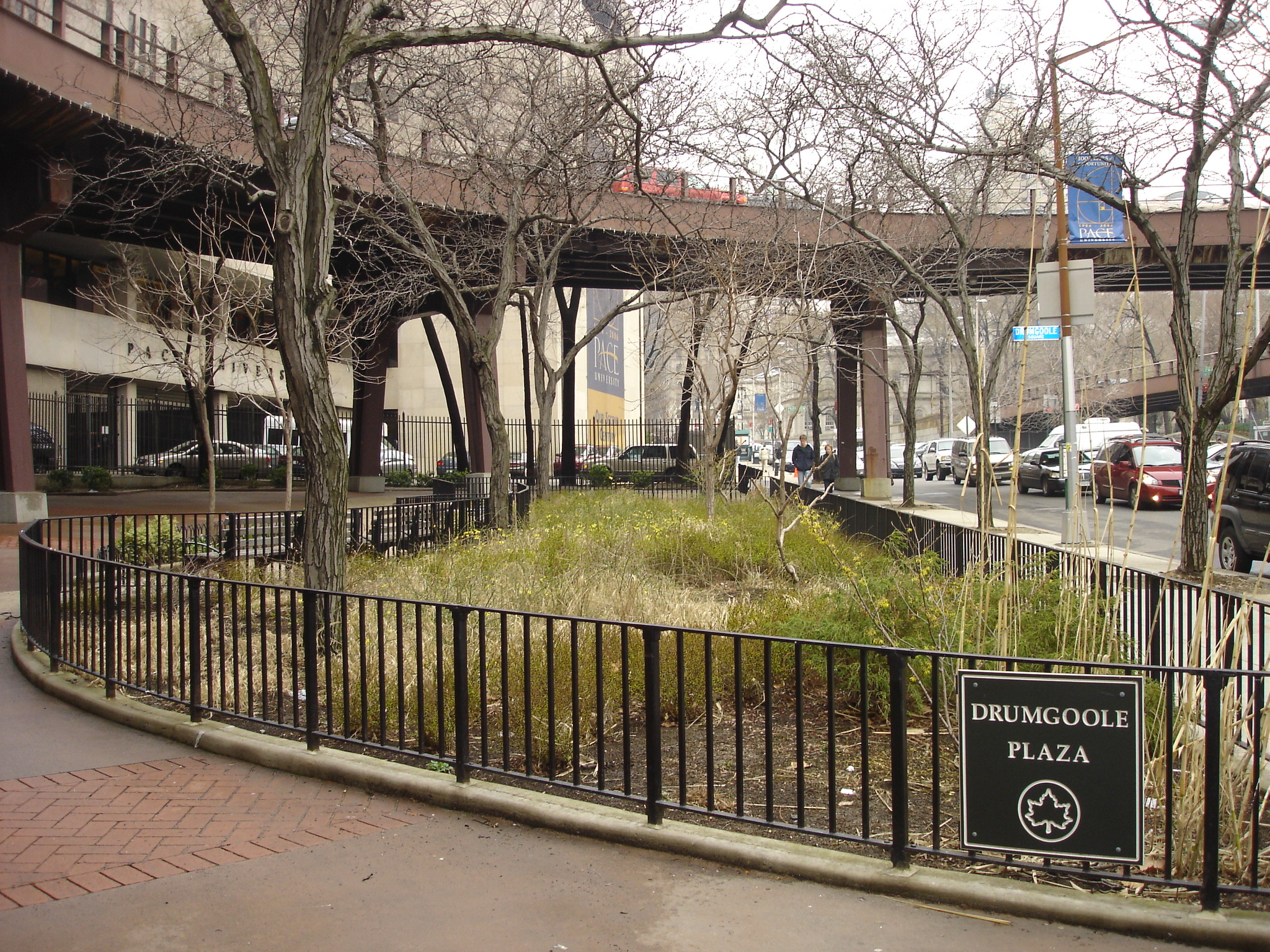 This photo is of Wikipedia Takes Manhattan location code 166, Drumgoole Plaza.